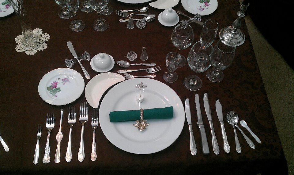 12 Courses: Caviar, Escargot, Seafood Cocktail, Soup, Fish, Lobster, Entree, Palate Cleanser, Releve(main) Course, Salad, Dessert, Coffee/Tea